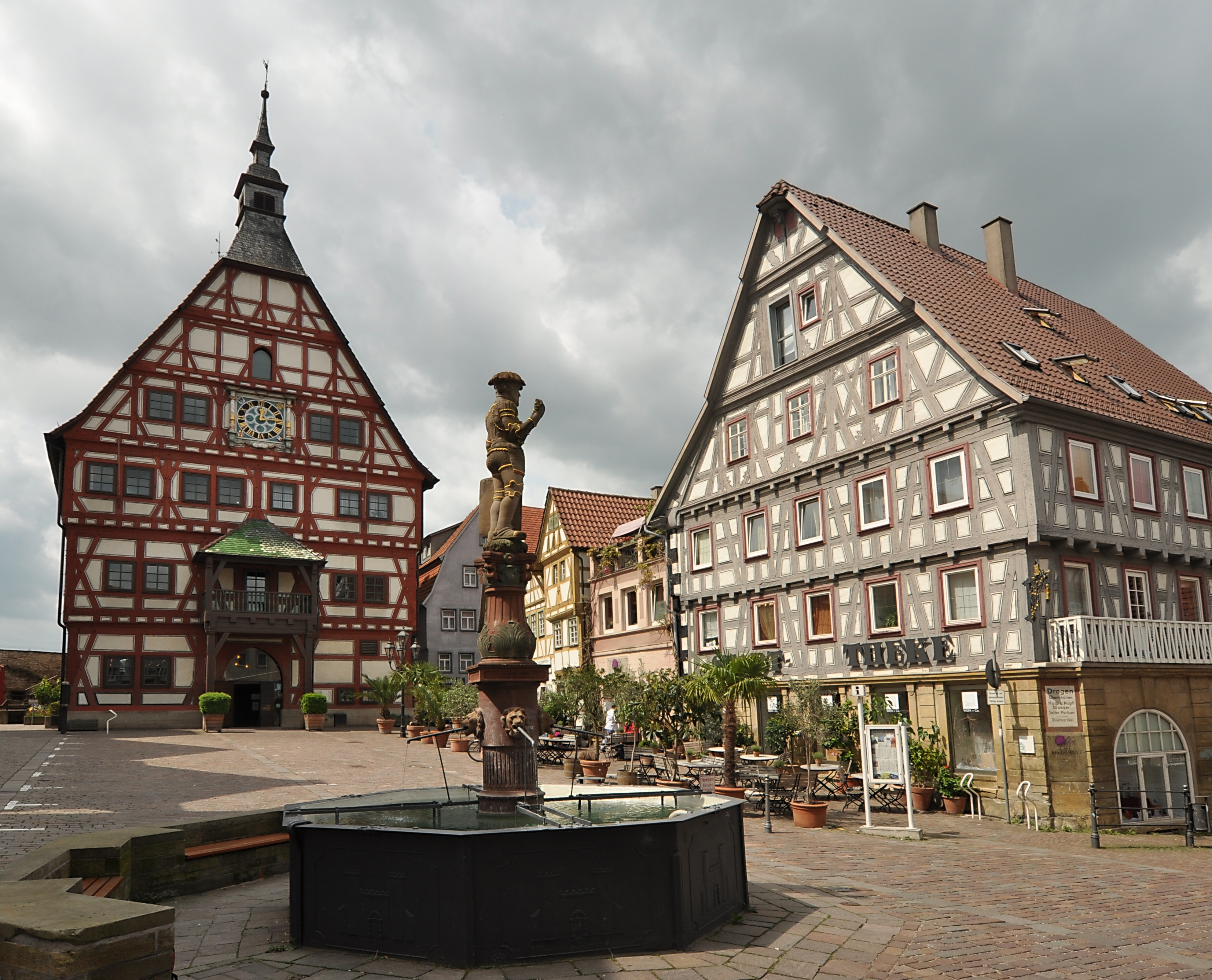 Besigheim, Marktplatz mit Rathaus